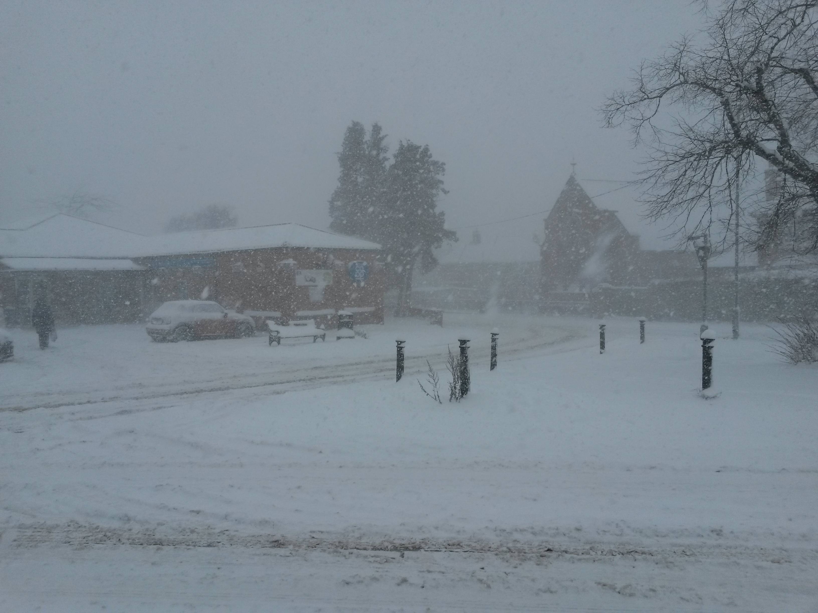 Photograph of Skellingthorpe when it was hit by the so-called Beast from the East